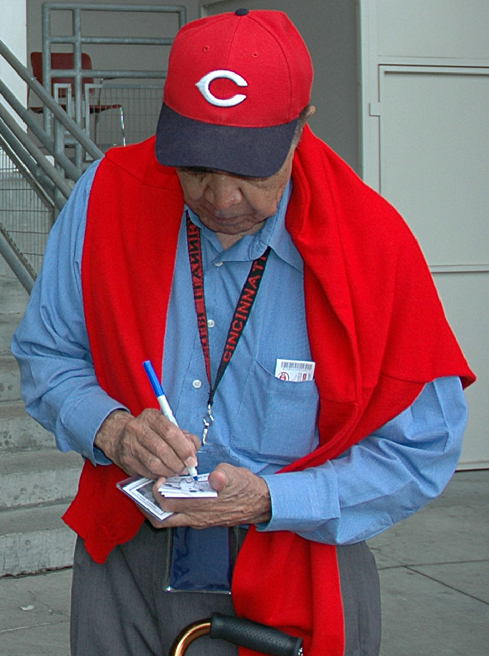 CINNCINATI, Ohio (April 22, 2008) Lt. j.g. Sean Magee, left, and Navy Counselor Chief David Magnus of Navy Recruiting District (NRD) Ohio get an autograph from Chuck Harmon while attending a Cincinnati Reds game. Chuck Harmon was the first African American to play for the Cincinnati Reds on April 17, 1954 and also played for the Great Lakes Naval Station's Black baseball squad while serving in the U.S. Navy. U.S. Navy photo by Mass Communication Specialist 1st Class Keith Bryska (Released)